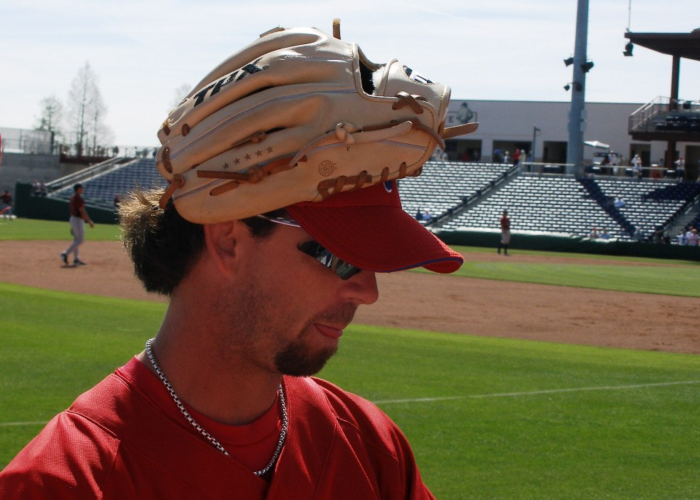 Geoff Geary signing autographs before the March 12, 2007 game against the Houston Astros